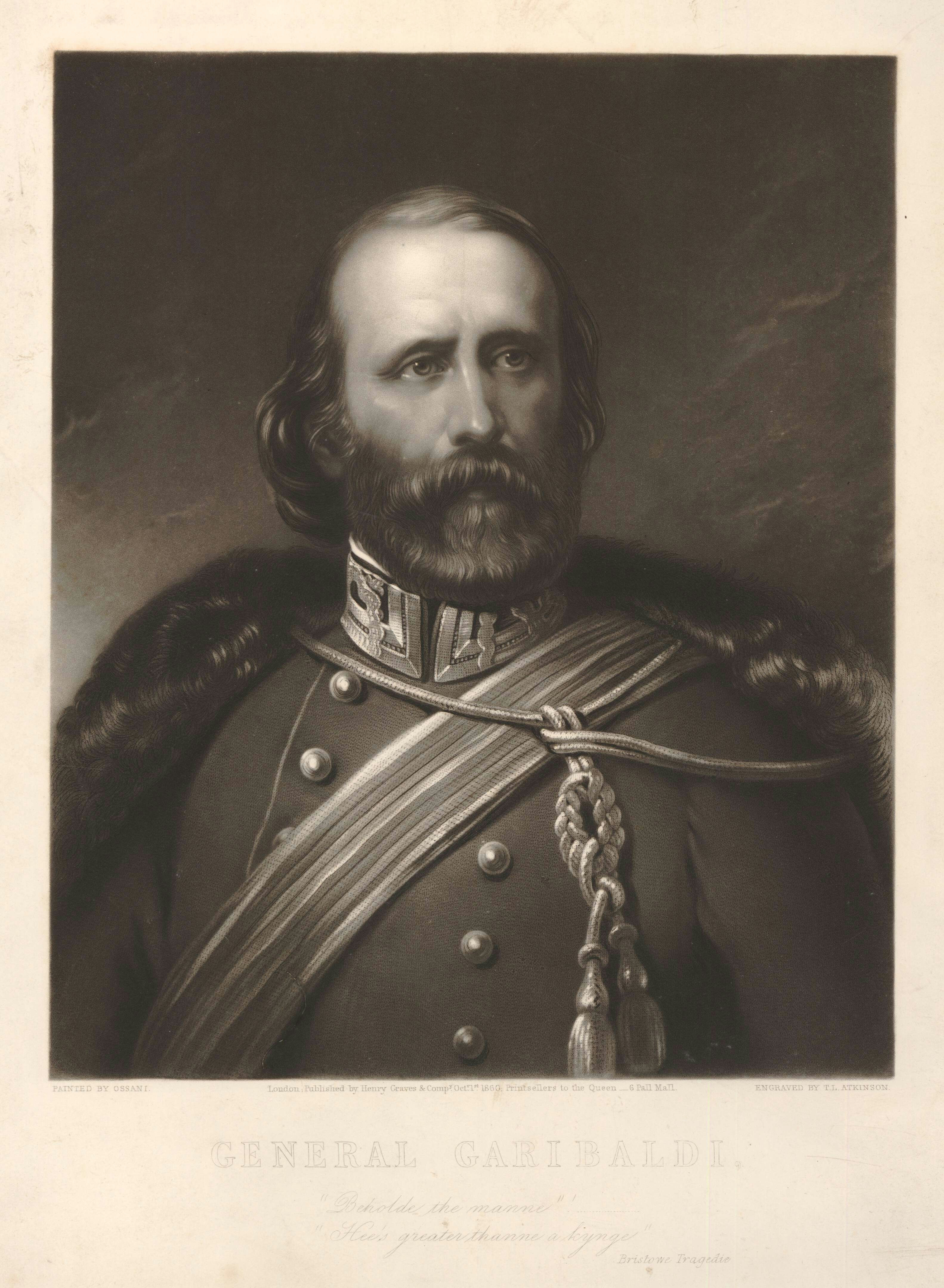 Portrait; head and shoulders to left, looking away to right, wearing military uniform with a double-breasted coat, sash and a fur-coat secured with a braid; after Ossani; scartched open-letter state. 1860 Mixed method mezzotint